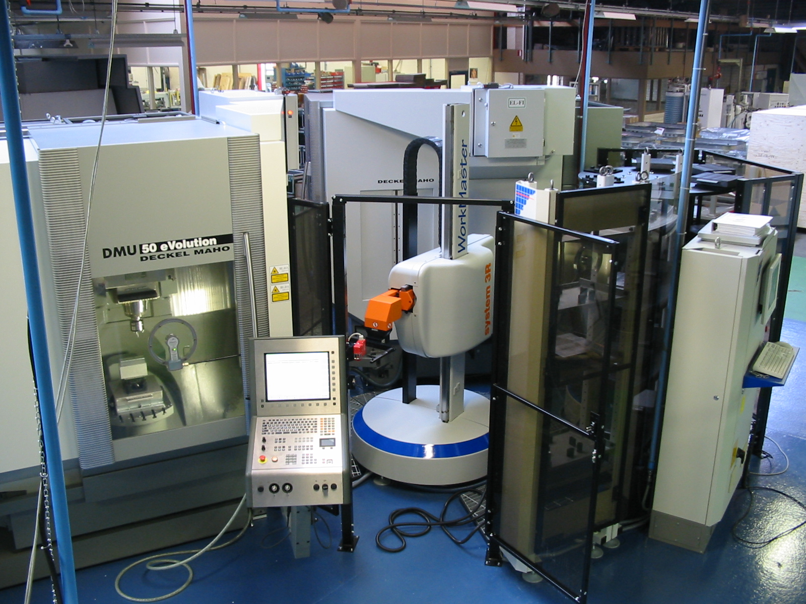 Automation: WorkMaster load 2 milling machine.